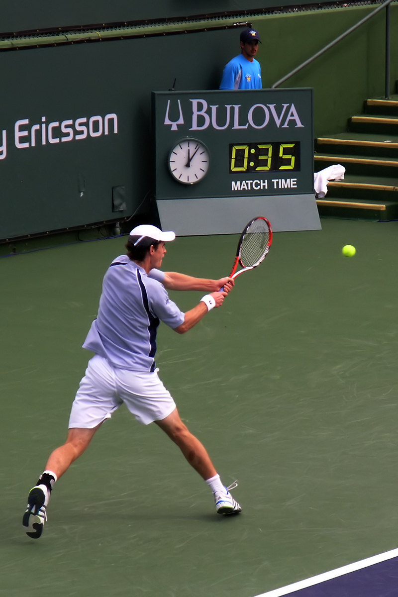 Andy Murray hits a backhand in his second round match at the 2008 Pacific Life Open.